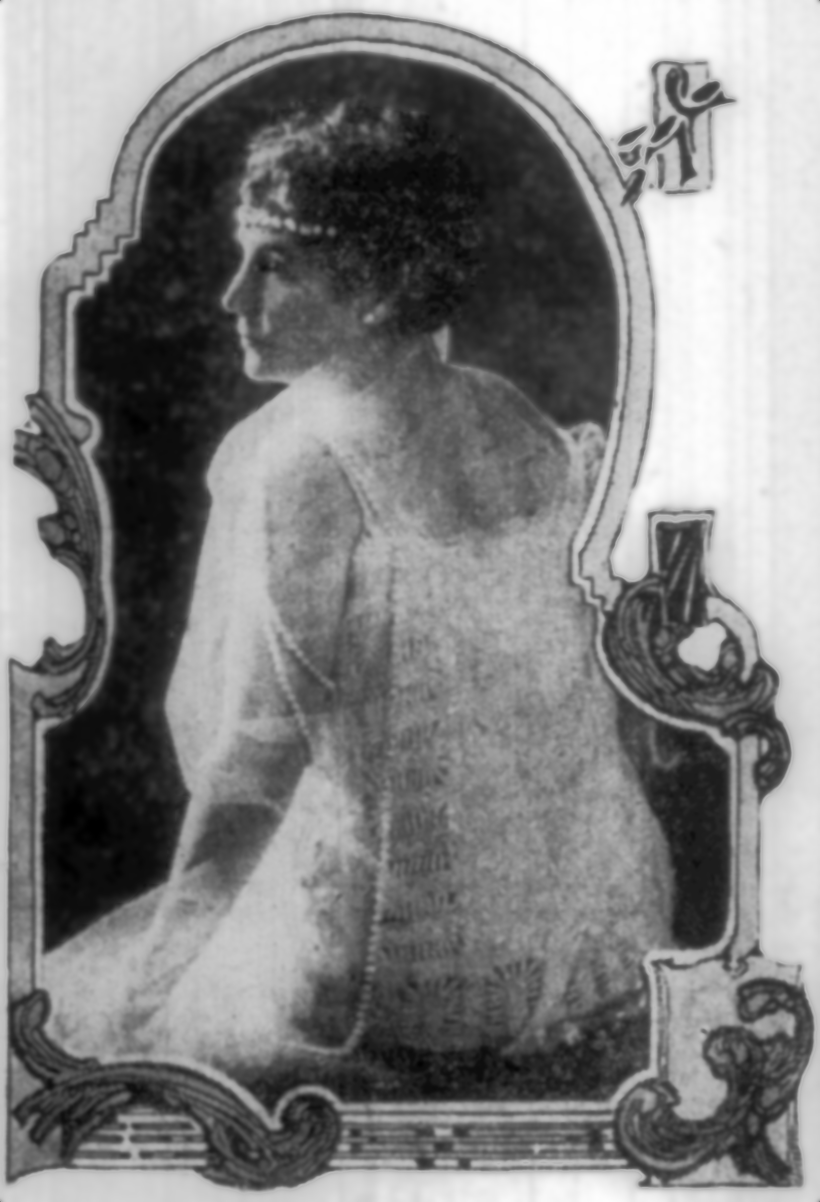 Emma Ahuena Davison Taylor (1866–1937), wife of Albert Pierce Taylor and daughter of Benoni R. Davison and Mary Jane Kekulani Fayerweather.